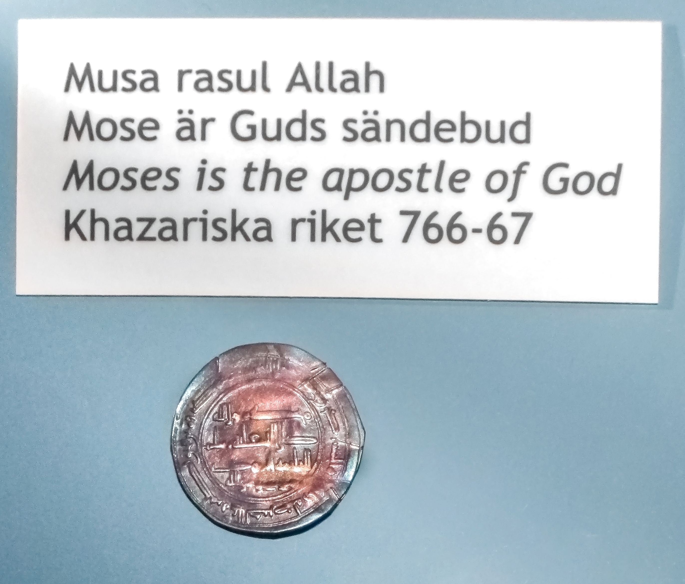 Khazar coin with museum tag, the so called 'Moses coin' from the Spillings Hoard at Gotland Museum